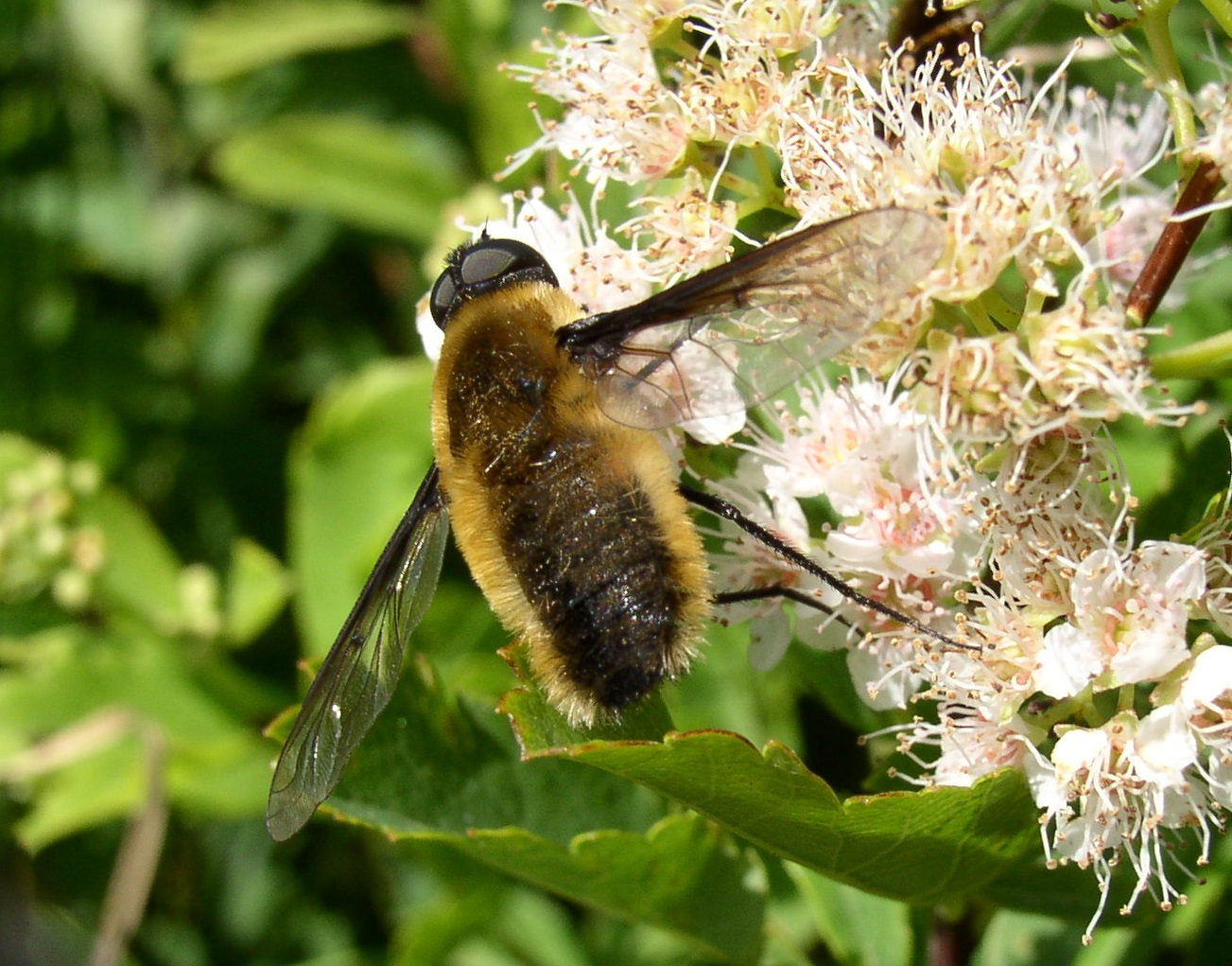 Tawny-tailed Bee Fly, Villa fulviana on meadowsweet (Spiraea latifolia). Top of Cadillac Mountain, Acadia National Park, Hancock County, Maine, USA.